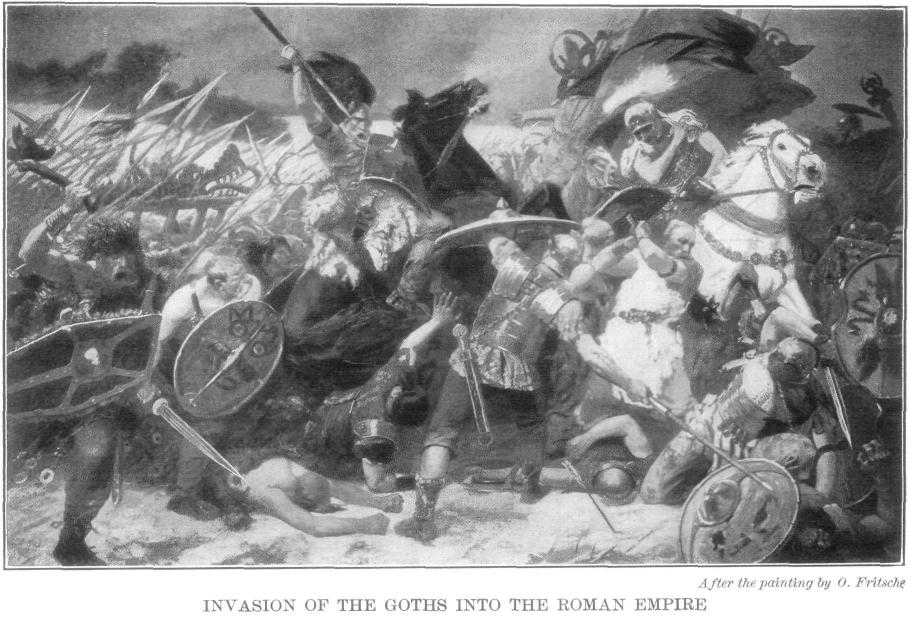 Invasion of the Goths into the Roman Empire. Painting. Illustration from "Beacon Lights of History, Volume IV, by John Lord" (1880s?)